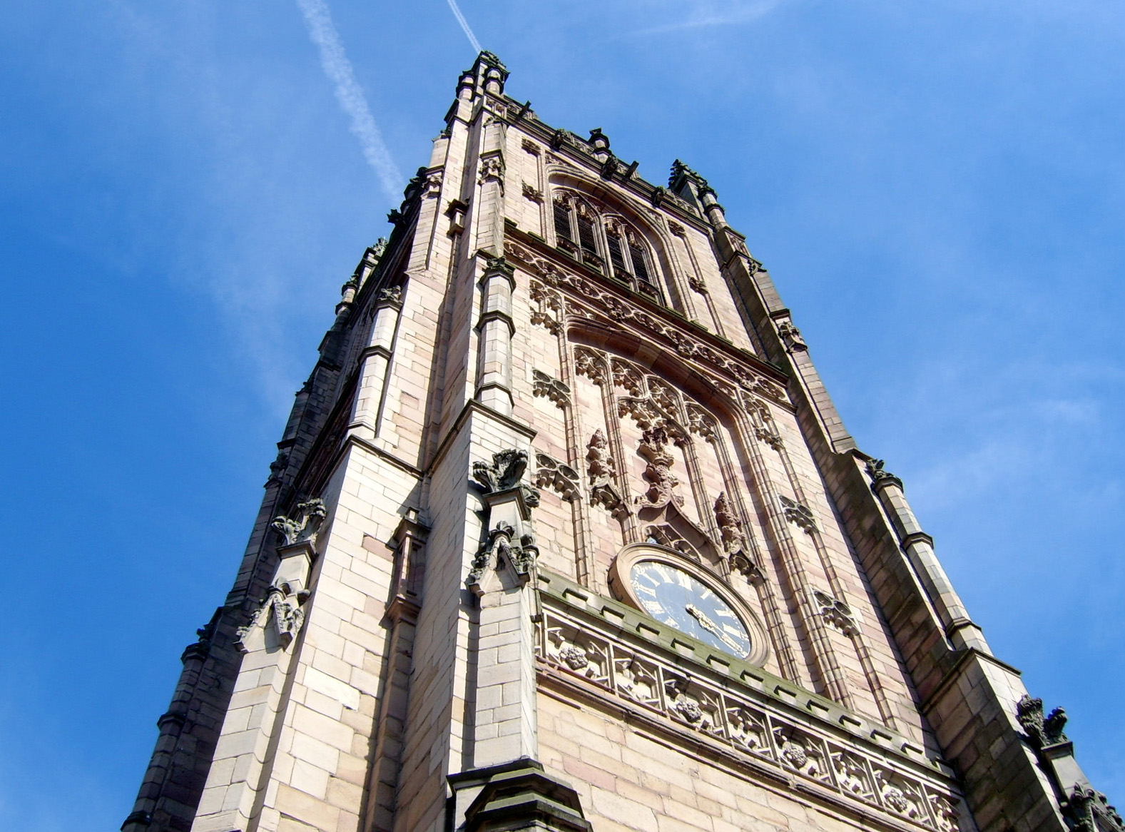 Derby Cathedral, Derby, England